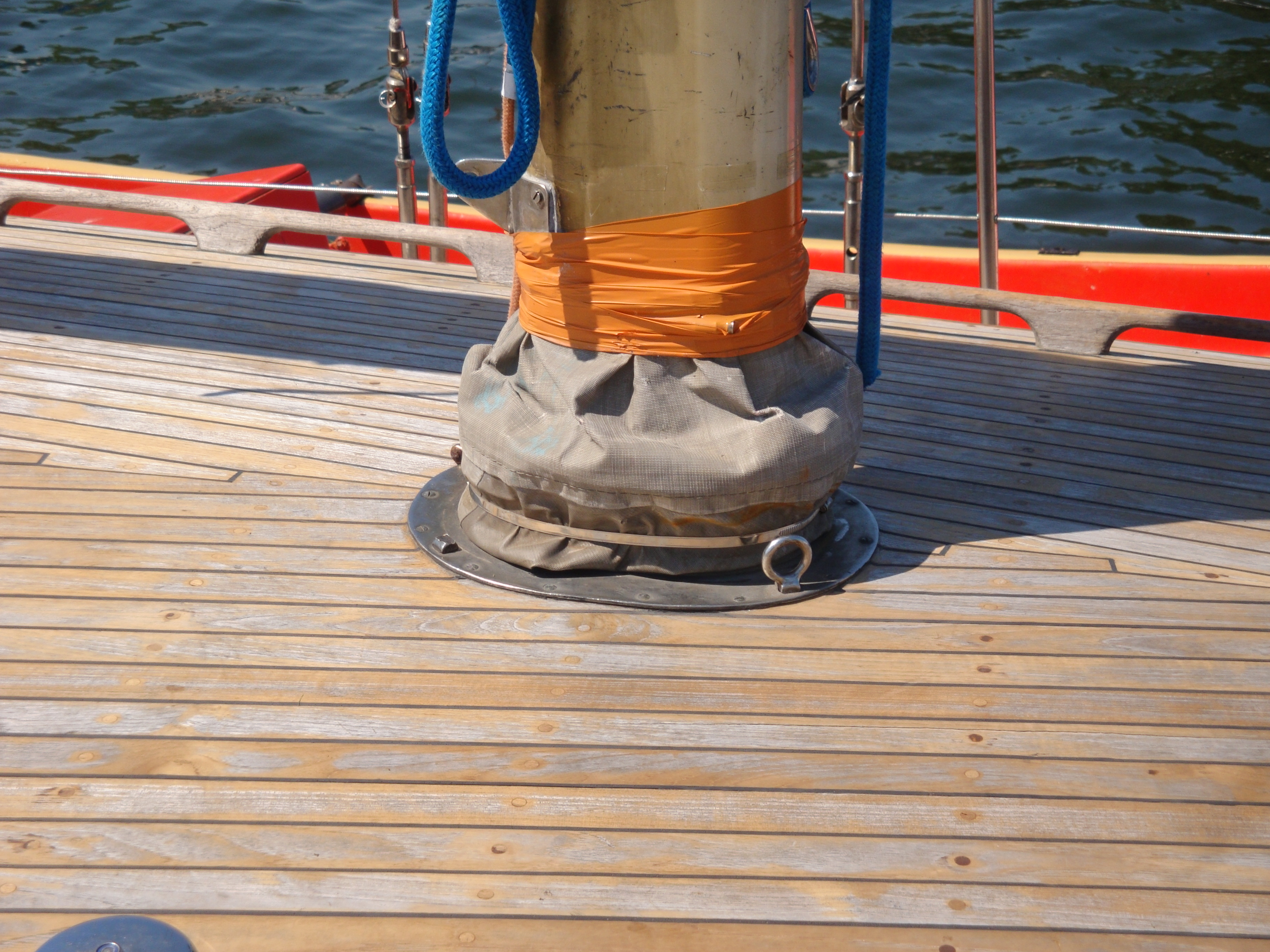 Gasket when mast pass through deck of sailboat